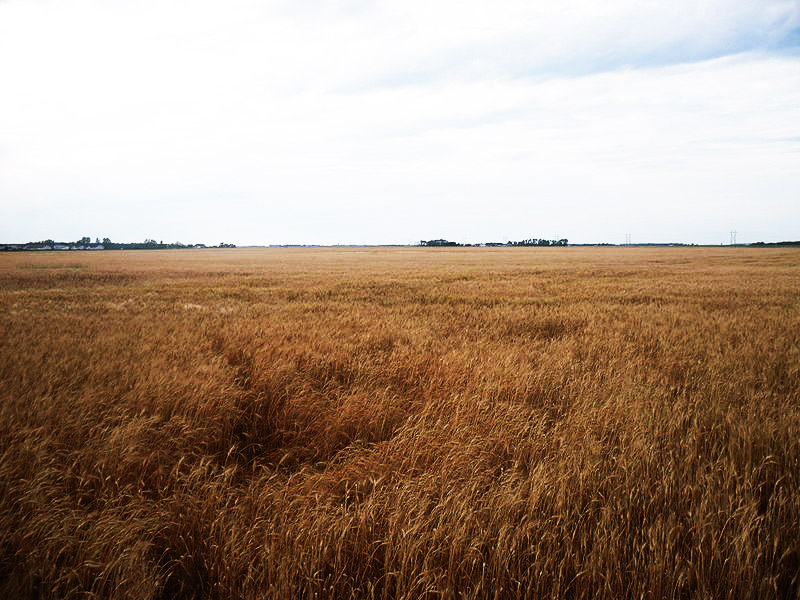 Taken about 2km west of Steinbach, Manitoba. This photo is looking northeast over a barley field with the sun setting to the west. Mitchell, Manitoba is also just visible to the west.